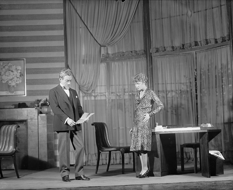 Photograph of Claude Rains playing the part of Joe Vilim onstage with actress Mary Kennedy, playing Lady's daughter, in the production of The Camel Through the Needle's Eye, Martin Beck Theatre, New York City, 1929. Courtesy of the New York Public Library Digital Collection.